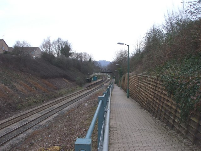 Danescourt railway station, Radyr, Cardiff